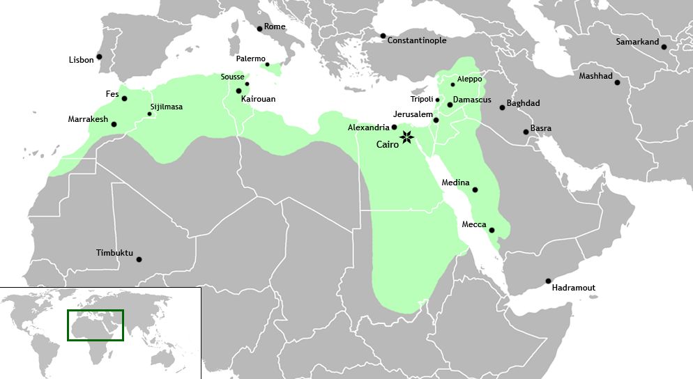 The Fatimid Caliphate at its greatest extent.